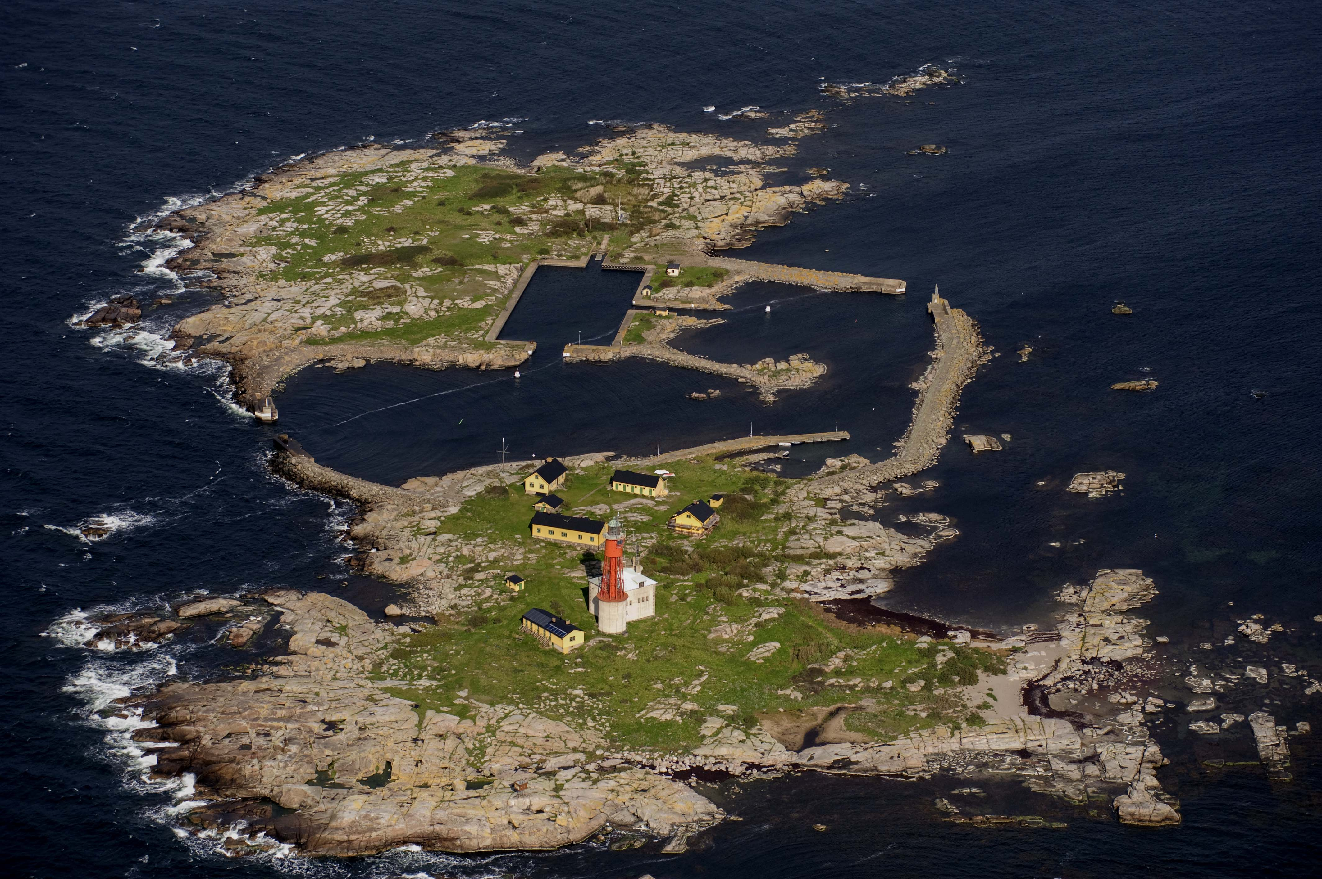 Utklippan lighthouse from the air